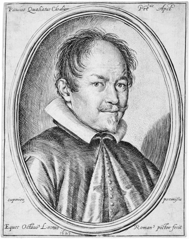 Italian organist and composer Paolo Quagliati (ca. 1555-1628) after Ottavio Leoni (1578-1630).